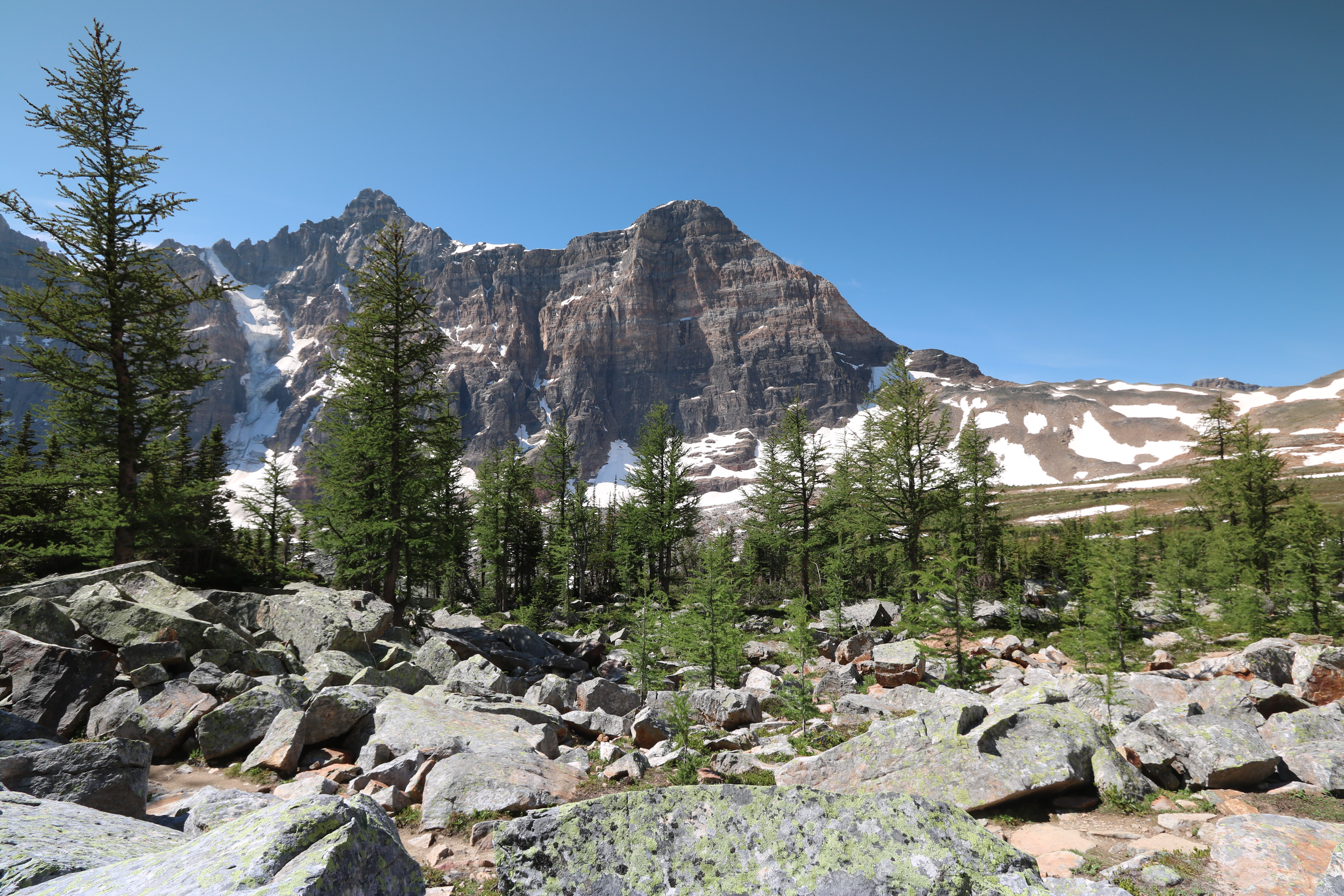 This was a great spot to stop for something to eat and drink.